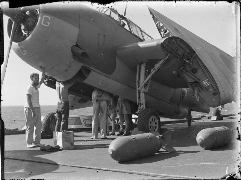 The Royal Navy during the Second World War Bombing up a Grumman Avenger aircraft on the flight deck of HMS ILLUSTRIOUS sailing in the Indian Ocean in readiness for the raid on Surabaya. The air strike against the Japanese held naval base was carried out by British, American, Australian, French and Dutch units. Several of the armourers are stood inside the aircraft's open bomb bay.